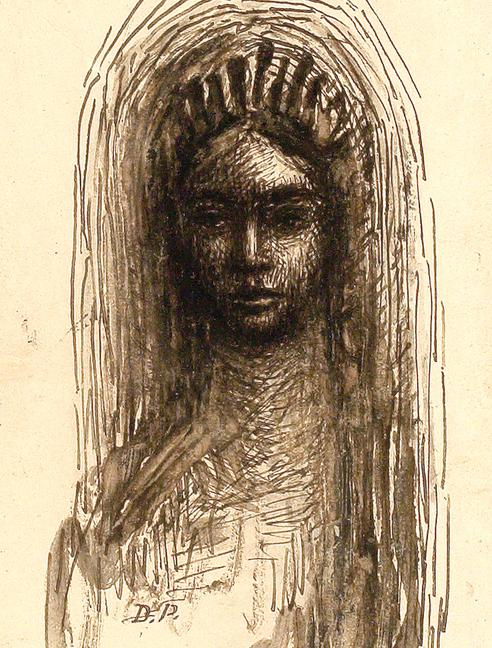 Chimera, ink wash